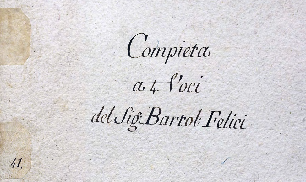 First page of the manuscript of sacred work "Compieta a 4 voci" composed by Bartolomeo Felici (1695-1776) in 1739